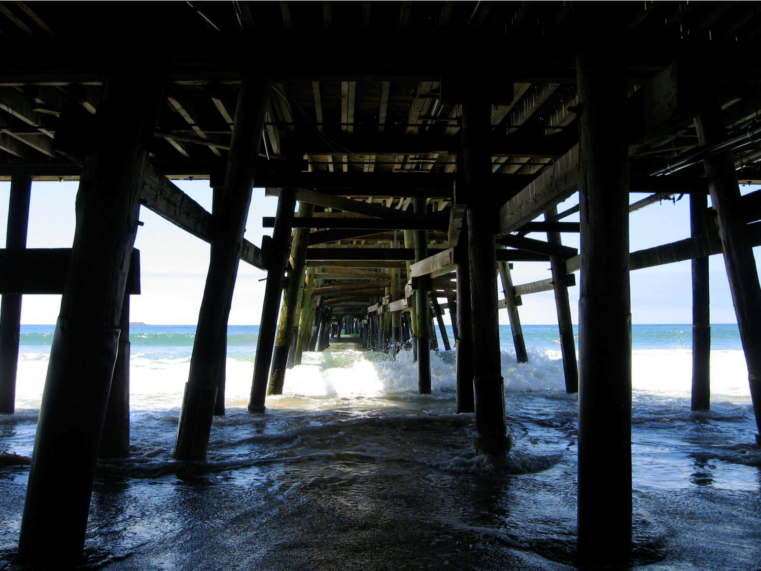 San Clemente Pier in San Clemente, California.